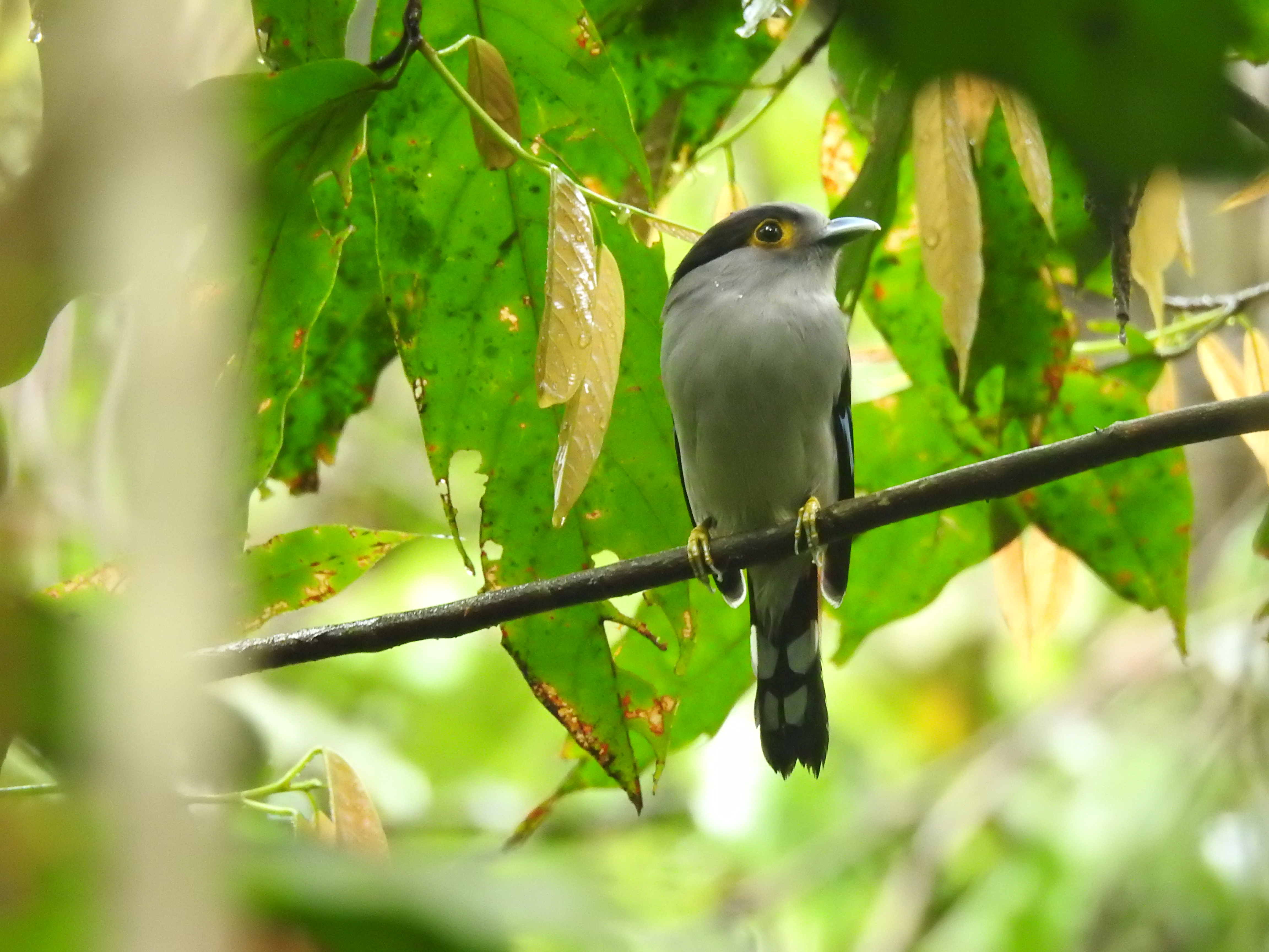 Photograph taken in Dehing Patkai Wildlife Sanctuary near Kotholguri.